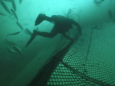 UR30™ brass cage deployed at at a fish farm near Puerto Montt, Chile. No biofouling exists on mesh when photo was taken 1 year after deployment. Scuba diver in photo is at a depth of 14’.